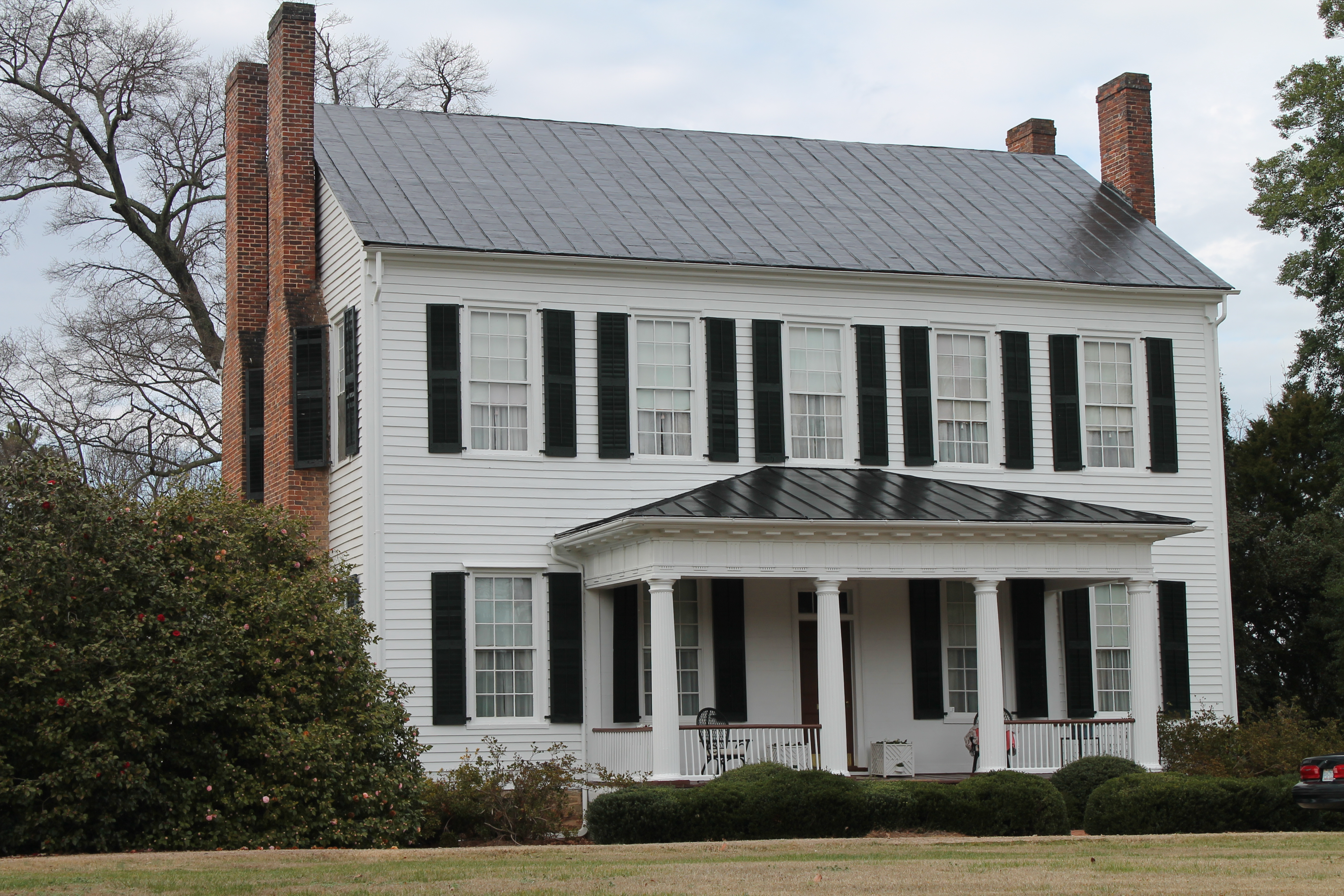 A view of the Mount Mourne plantation home near Mooresville from the public right-of-way.